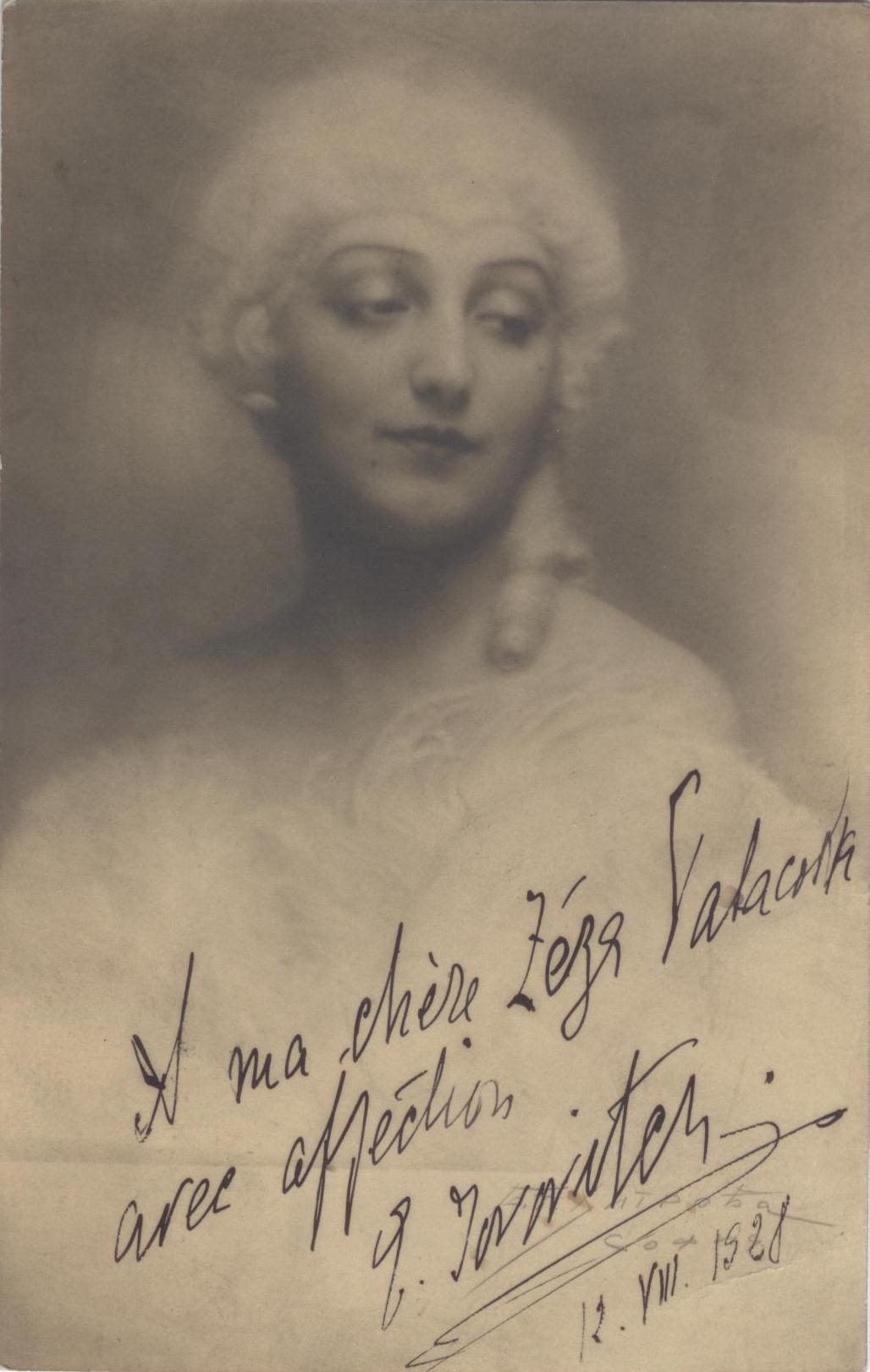 Bulgarian opera singer Elisaveta Jovovich